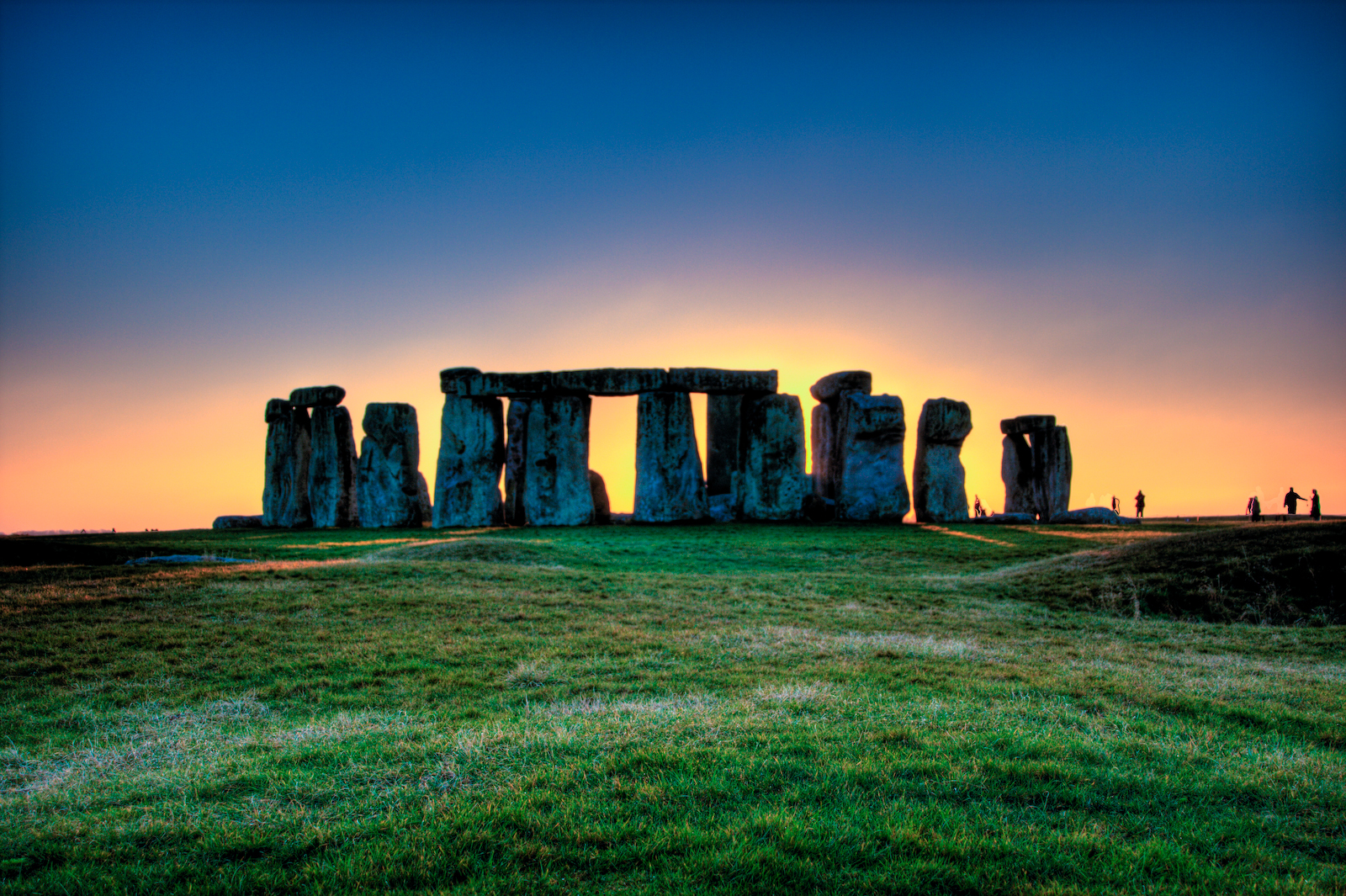 This was taken around 3.30pm at Stonehenge. It was a very cold day and because it's so open it makes it even colder. I was sat on the bridge at first but the constant crowd of people walking past kept shaking the camera. I ended up jumping onto the grass to quickly take 3 shots. 3 RAW files used for this HDR, put together using Photomatix.